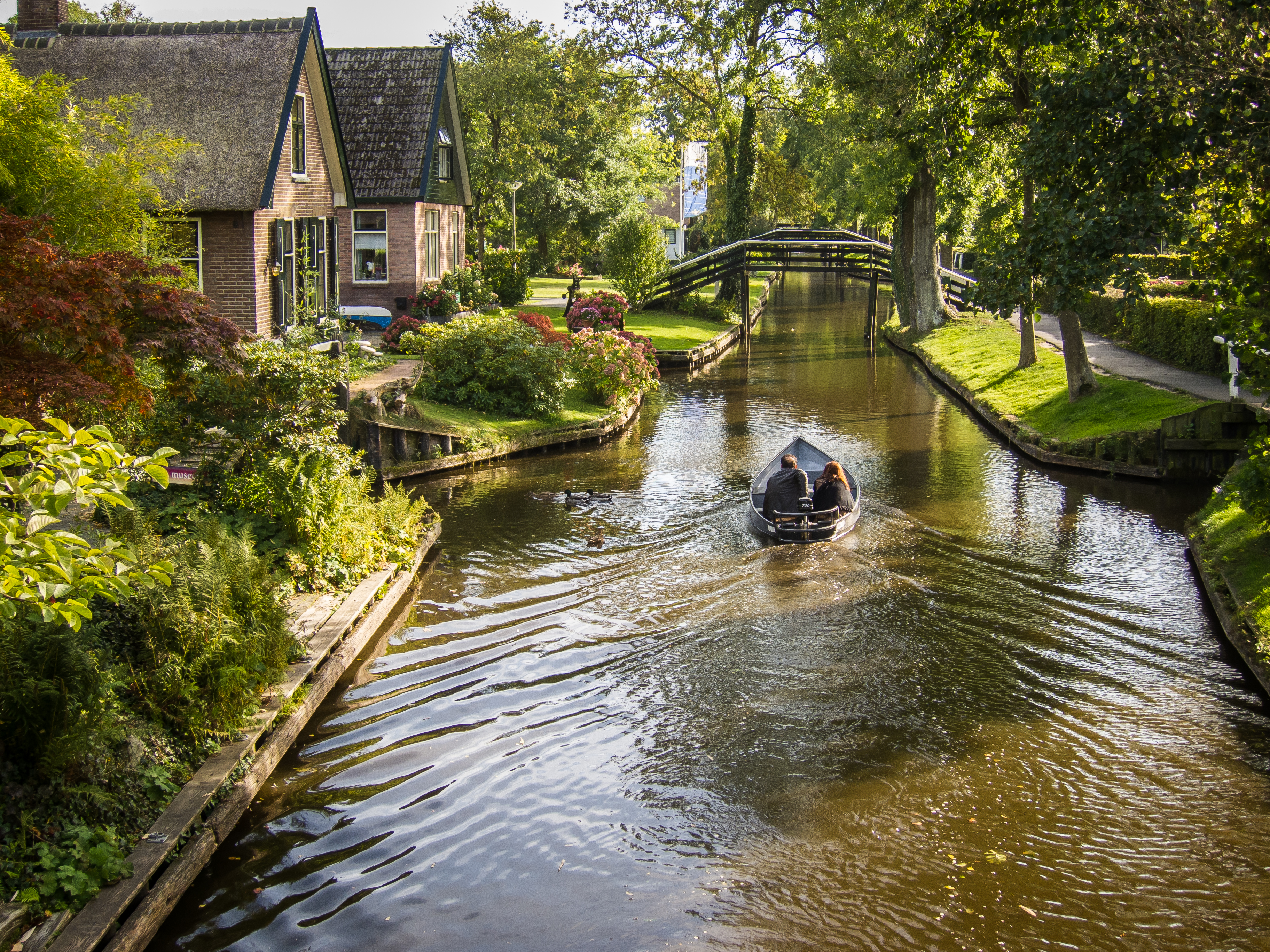 Canals in Giethoorn, Netherlands; a.k.a. the Venice of the North / Venice of the Netherlands